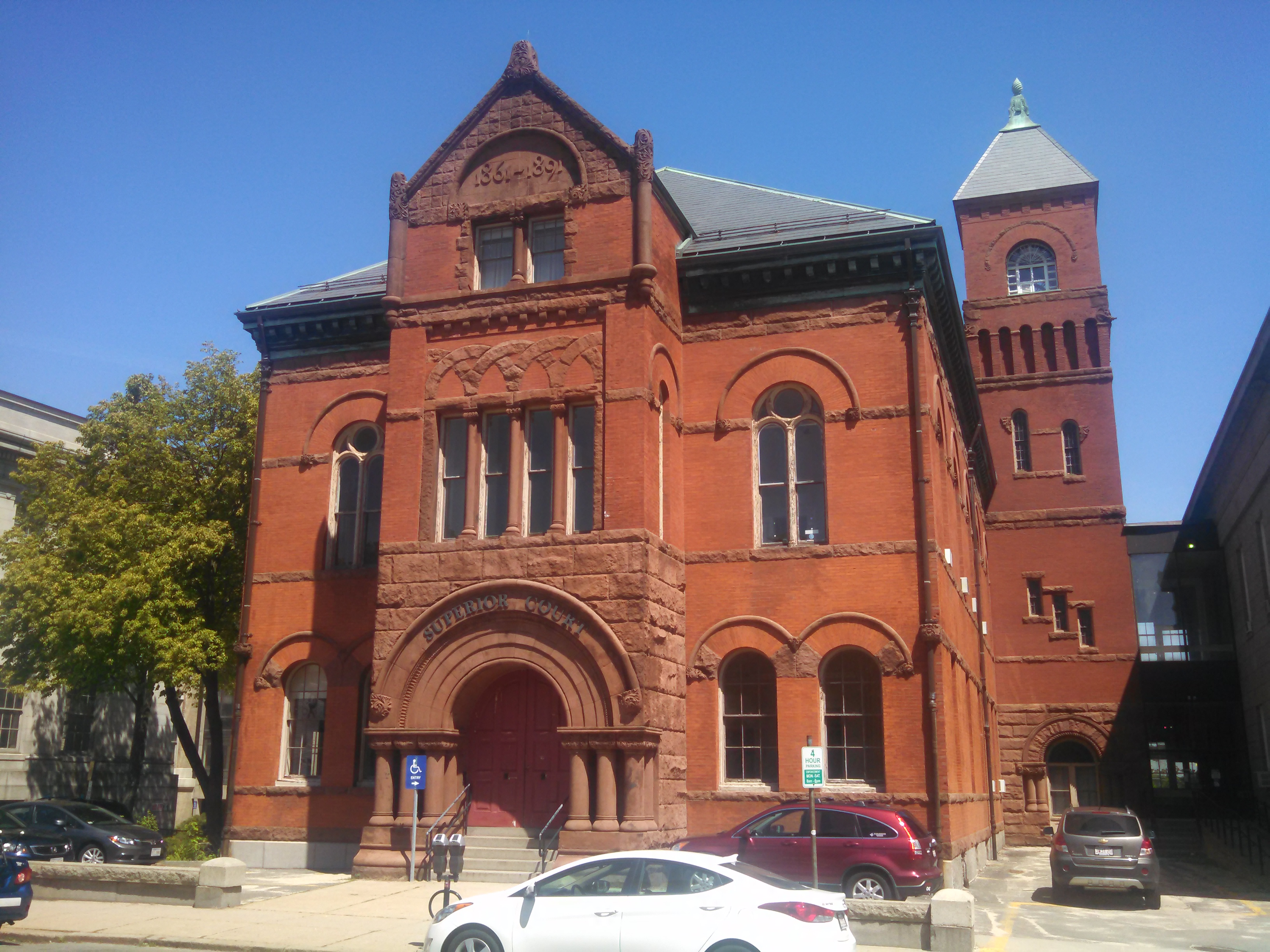 Essex County Superior Courthouse, Salem Massachusetts